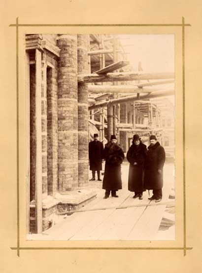 Anton Rubinstein, the architecte Vladimir Nicholas and the conservatory secretary V. A. Tur at the construction site of the St Petersburg Conservatory building. 1890s.